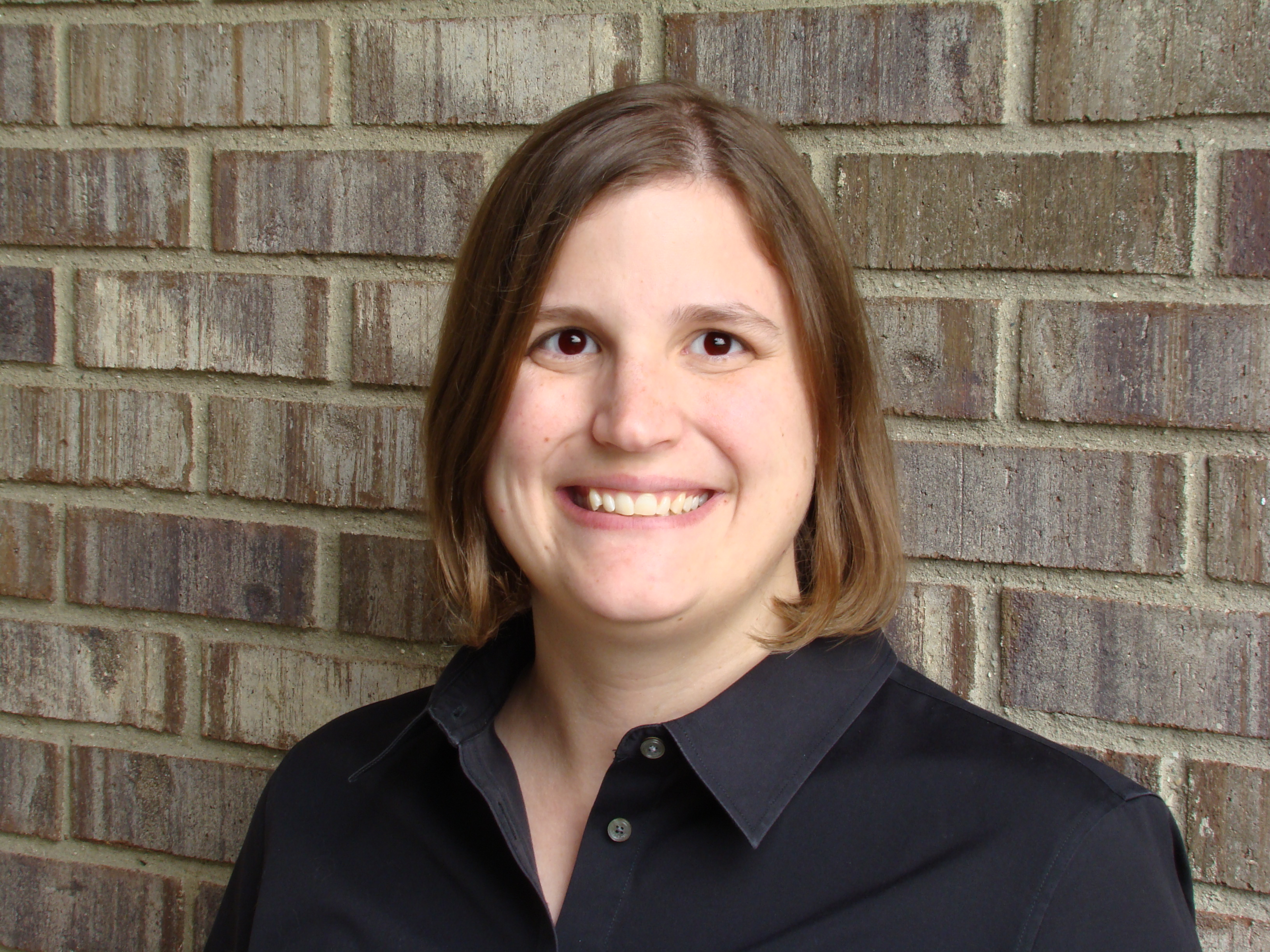 Elizabeth Riker, Moon Rock Project